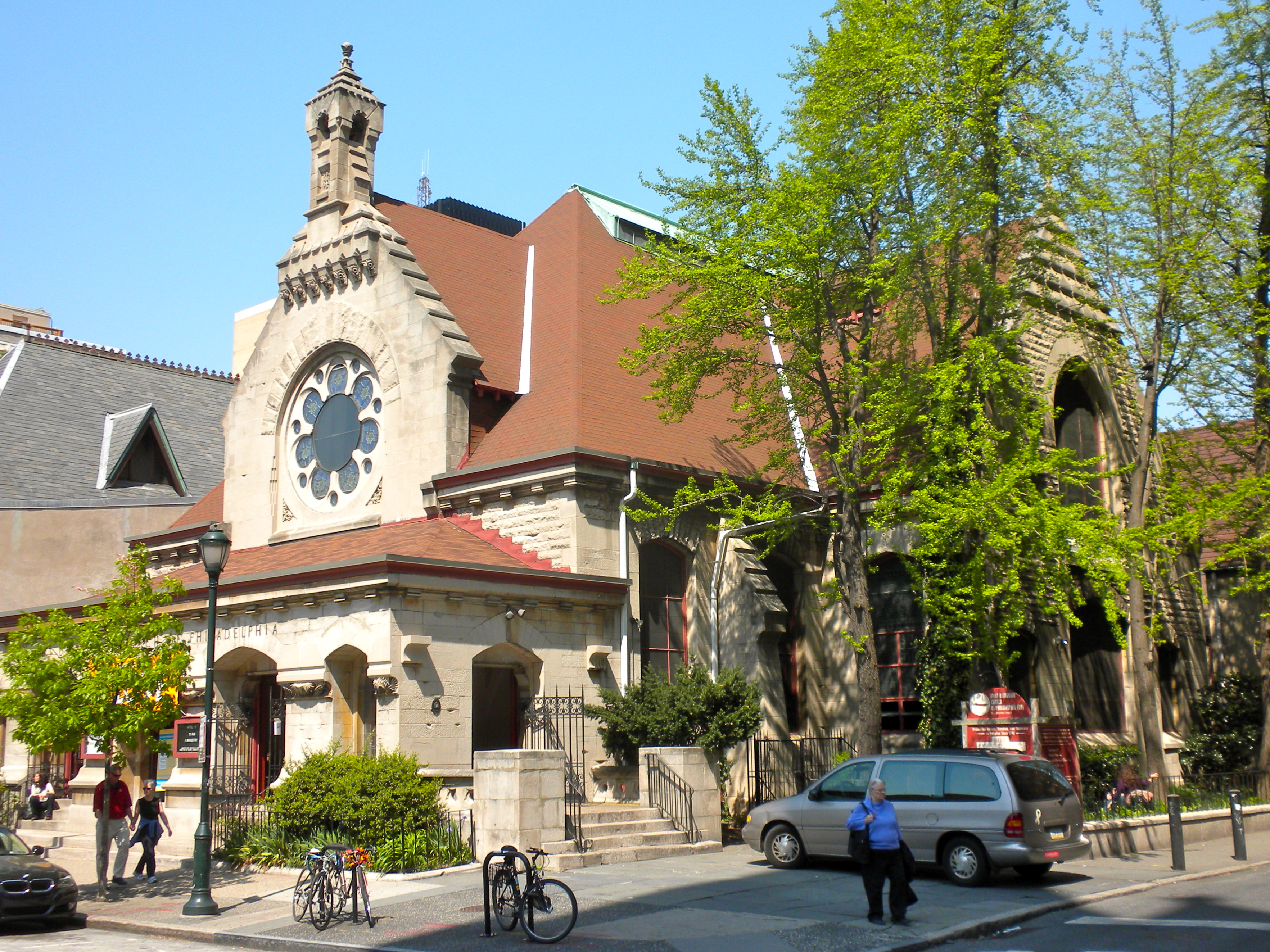 First Unitarian Church in Philadelphia. On NRHP since May 27, 1971. At 2121 Chestnut Street in Rittenhouse Square West neighborhood, Frank Furness, architect (1883-86)